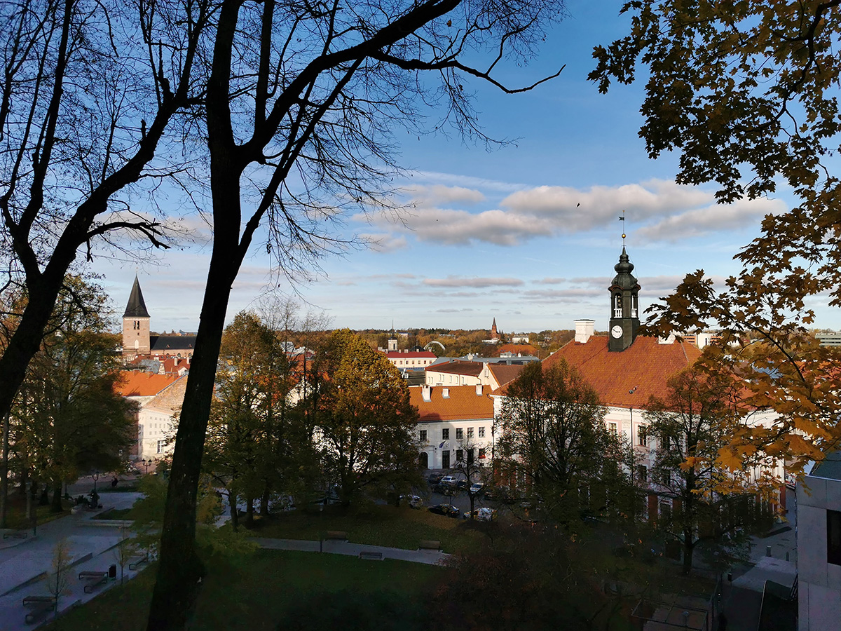 The centre of Tartu in autumn 2019